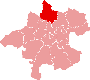 Location of Bezirk Rohrbach within the Land of Upper Austria